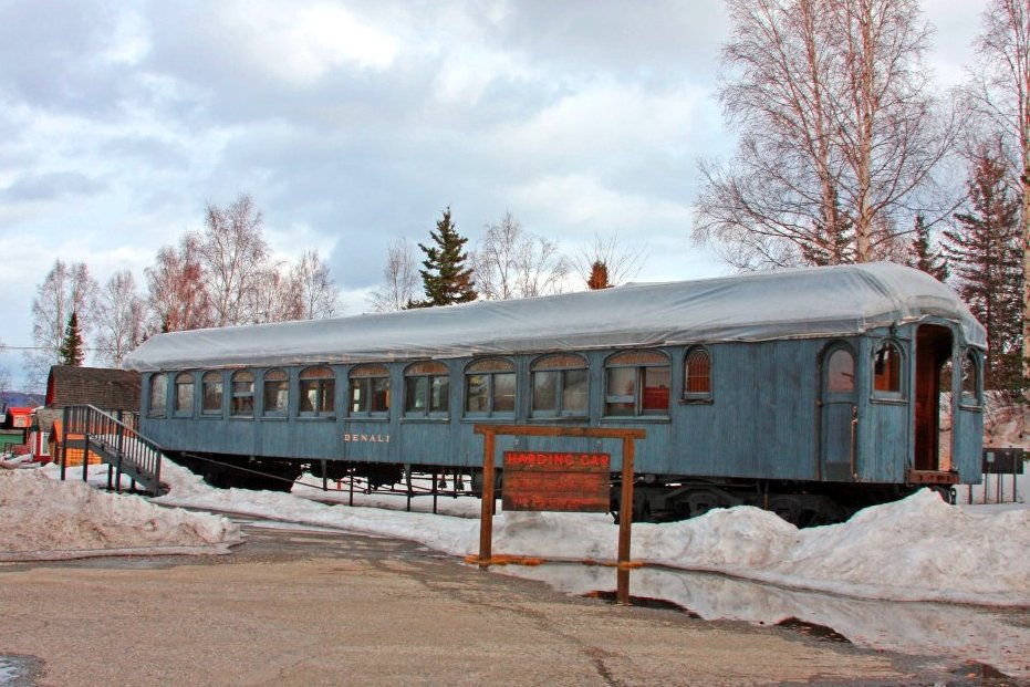 Image of the Harding Rail Car President Warren Harding used in 1923 to travel from Seward, Alaska to Nenana, Alaska to drive the golden spike, signifying the completion of the Alaska Railroad.